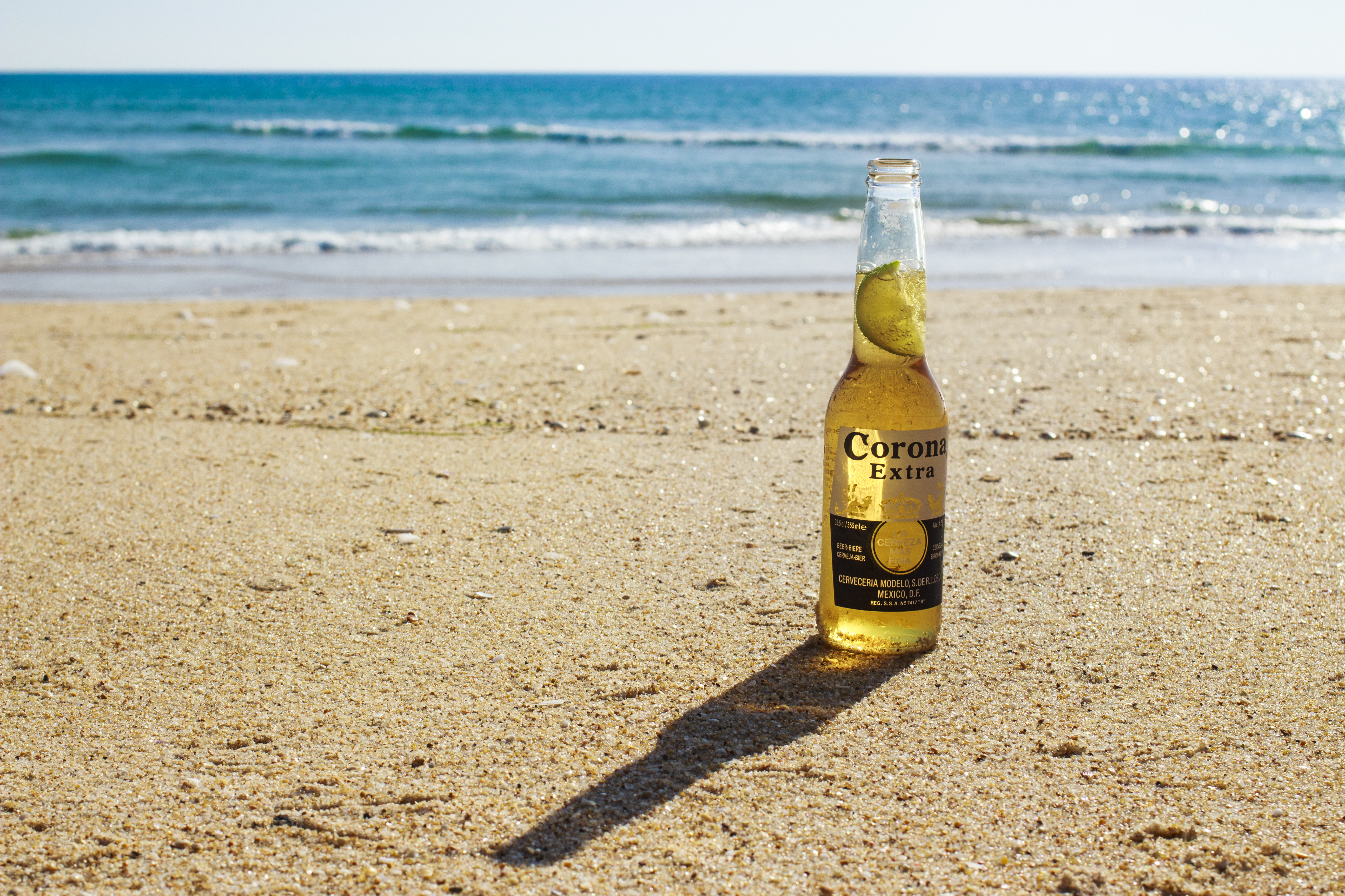 Faro, Portugal